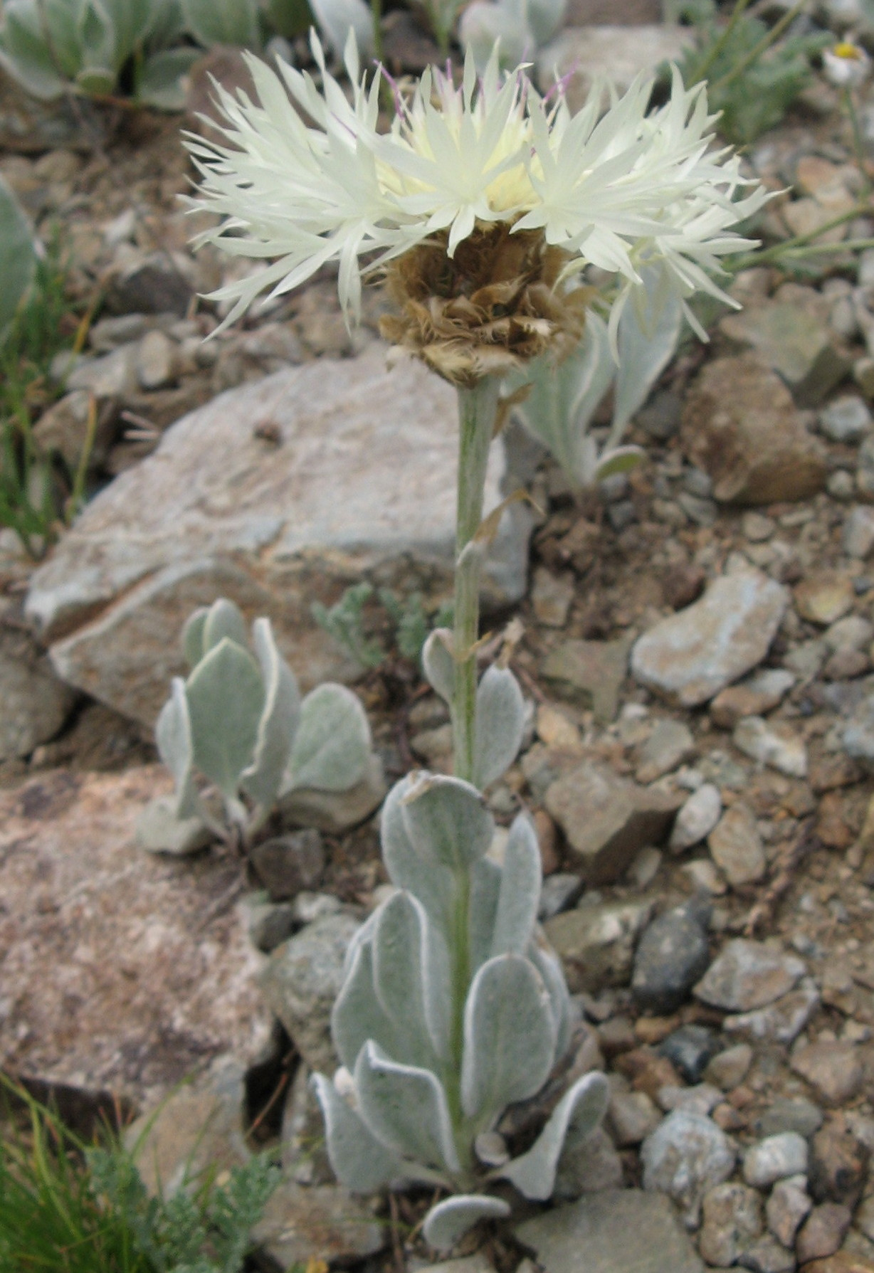 Psephellus appendiciger pic taken in Kaçkar mountains Turkey